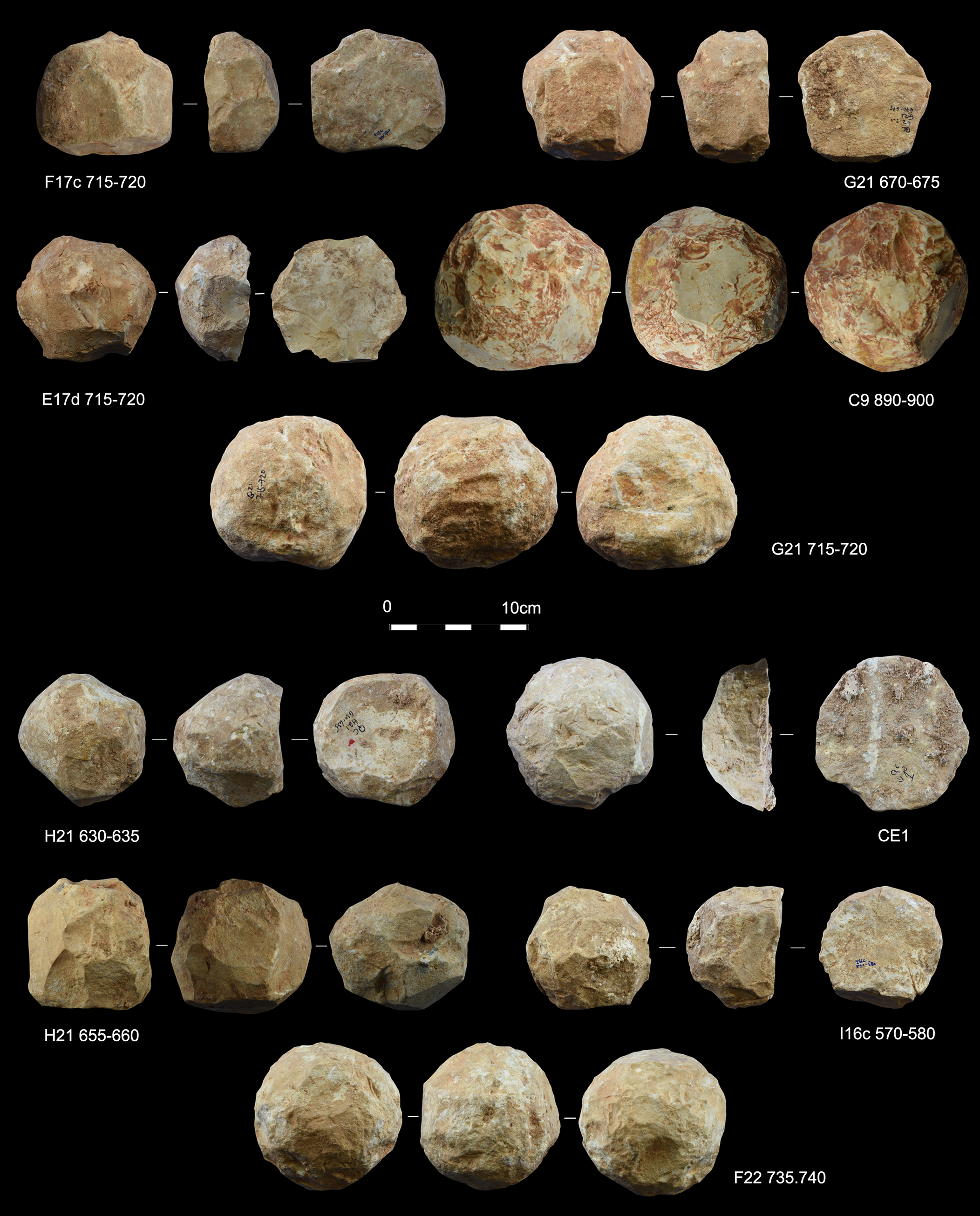 A collection of Palaeolithic shaped stone balls from Qesem Cave, Israel, with scale and specimen numbers. White lines join photos of the same object from different angles.